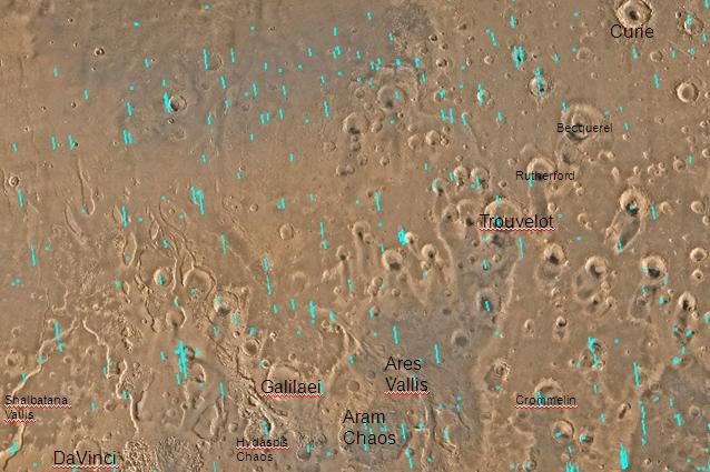 Map of Oxia Palus quadrangle with labels. The small, colored rectangles represent image footprints for the narrow angle camera on the Mars Global Surveyor. Some are about 1 mile wide, the otheers are about 2 miles wide. The map was made by the U.S. Geological survey for NASA.